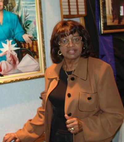 From N.Y,C. ...as she stands lovely with a painting of her self looking on. copyright John Mathew Smith